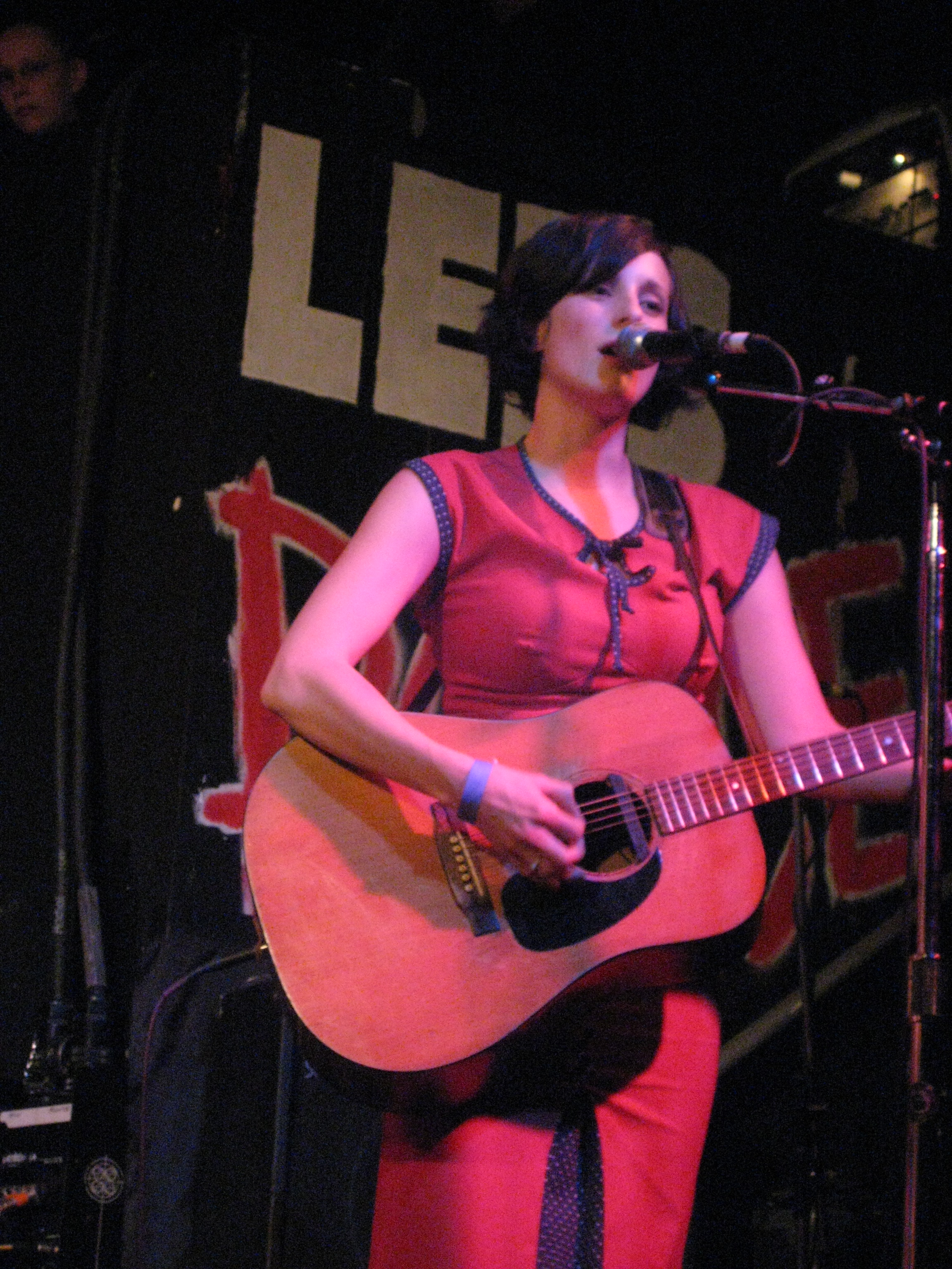 Melissa McClelland performing at the 2007 NXNE festival in Toronto